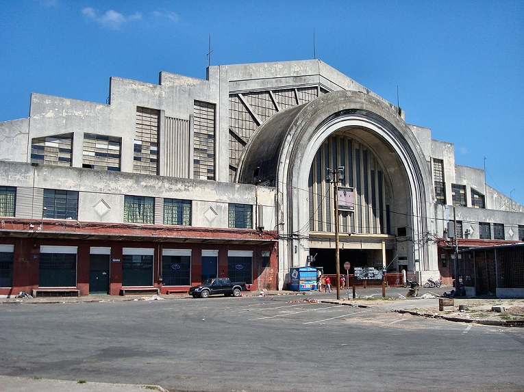 The main entrance of the Mercado Modelo fruit and vegetable wholesale municipal market.